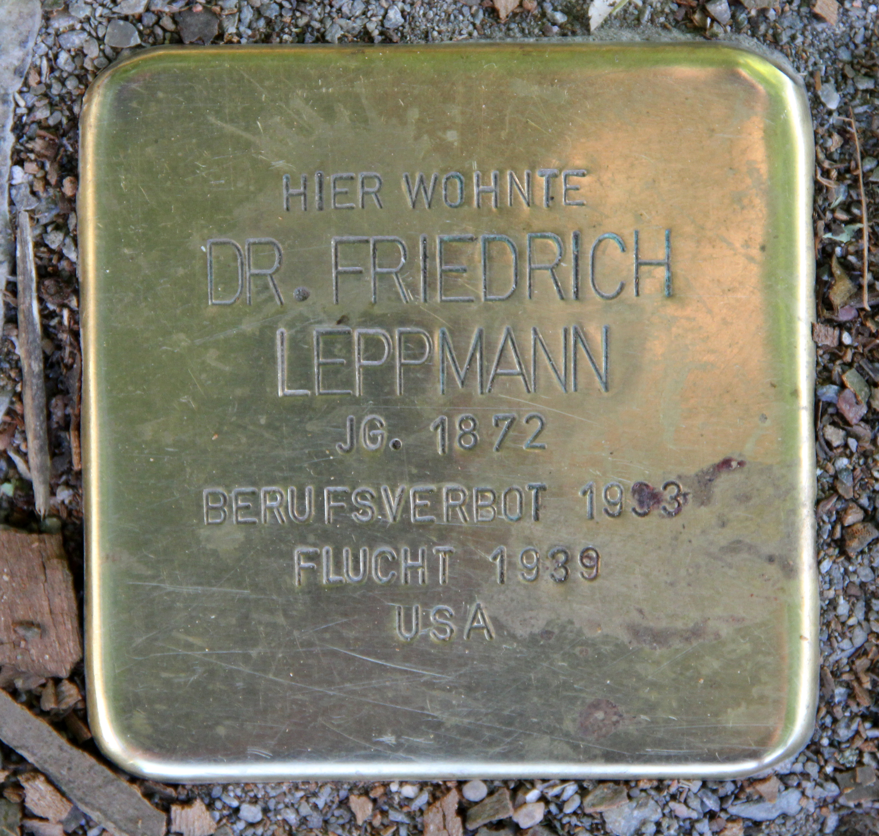 "Stolperstein" (stumbling block), Friedrich Leppmann, Siegmunds Hof 1, Berlin-Hansaviertel, Germany